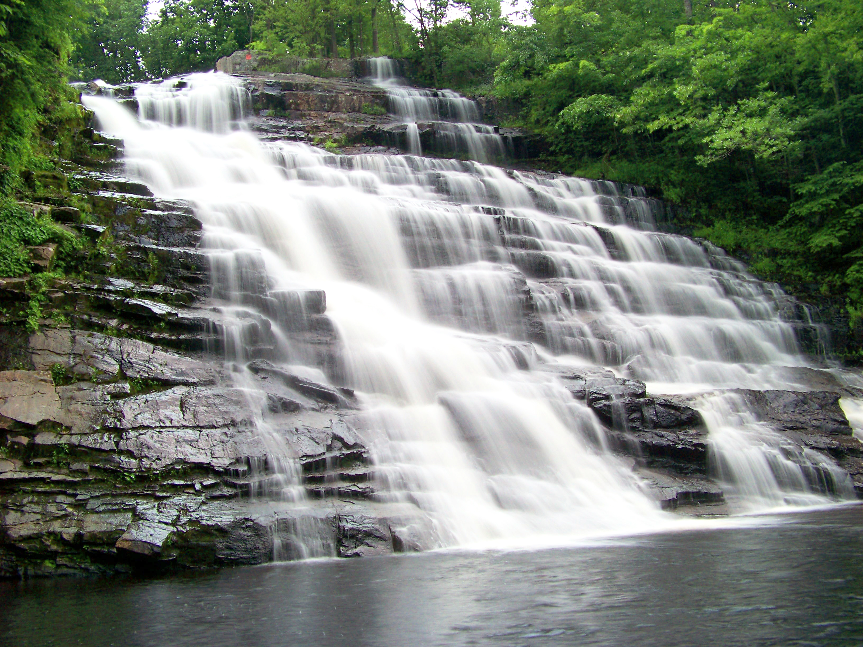 Barberville Falls on the Poesten Kill in Poestenkill, New York, United States. The drop is 92 feet.